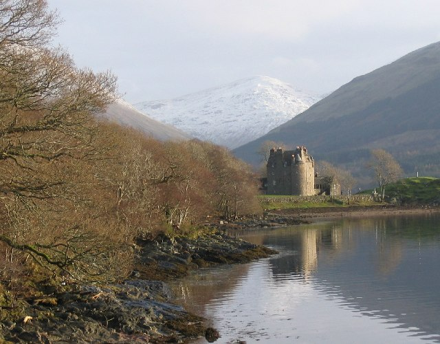 Dunderave Castle, Loch Fyne, Argyll. Late 16th century tower house built for MacNaughton family. Restored 1911/12 by Robert Lorimer. Dunderave is the "Doom Castle" of Neil Munro's novel of the same name.